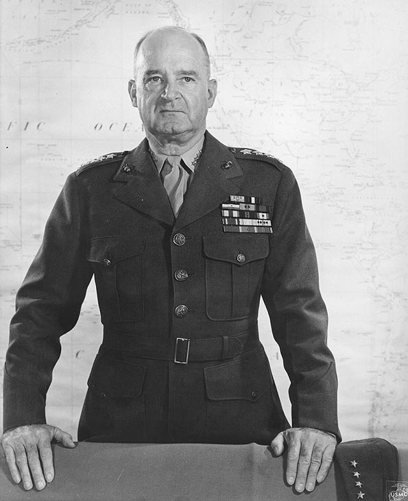 General Alexander A. Vandegrift, USMC, Commandant of the Marine Corps, 1944-1947 Portrait photograph, taken circa 1945-47. Official U.S. Marine Corps Photograph, from the collections of the Naval Historical Center.